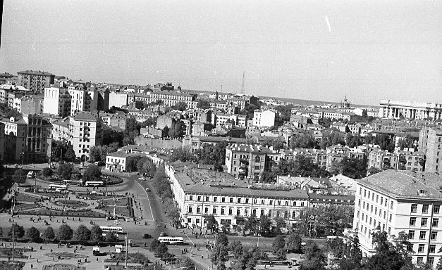 Maidan Nezalezhnosti (Kiev, Ukraine), 1962.